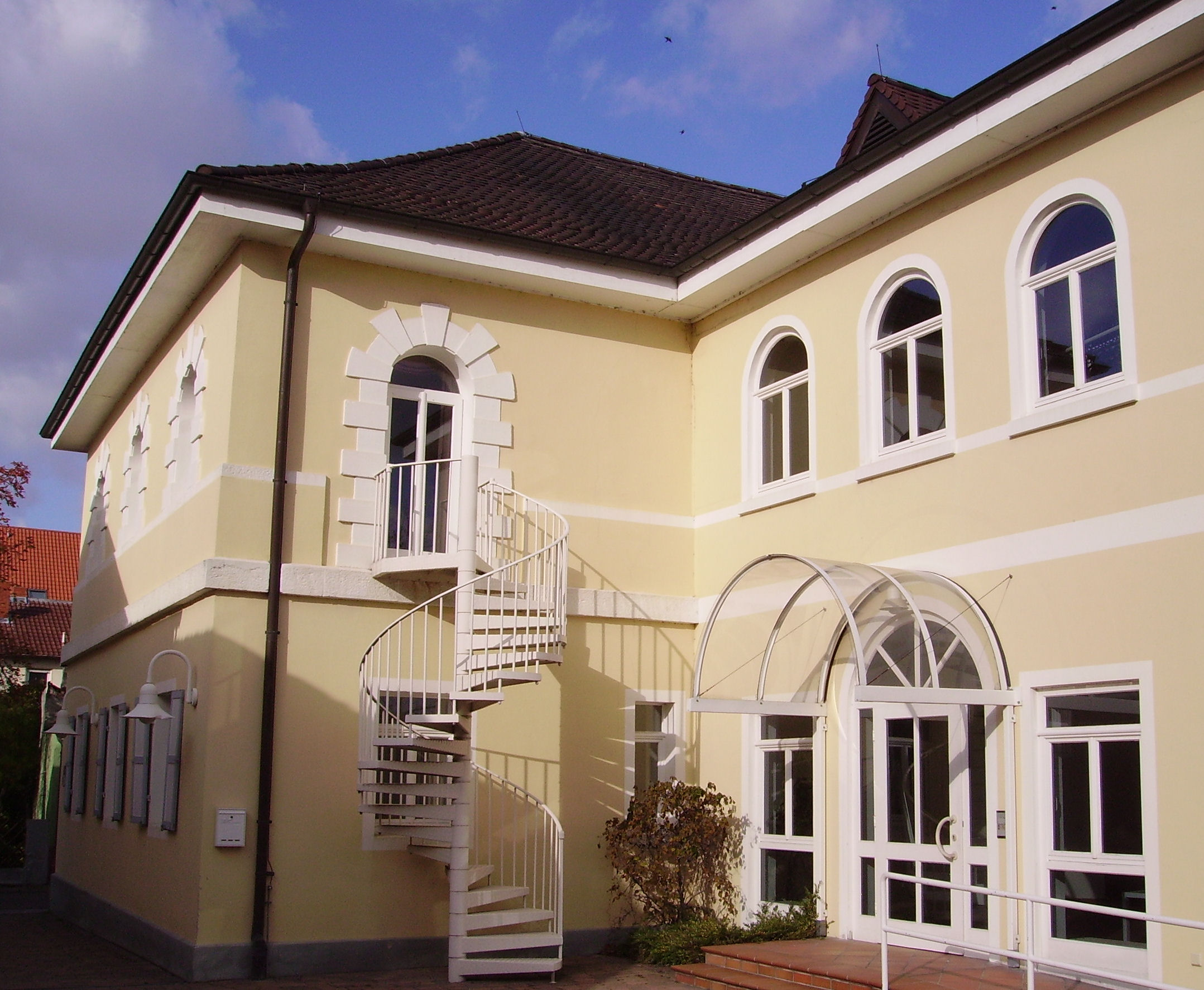 view of Mutterstadt, Germany